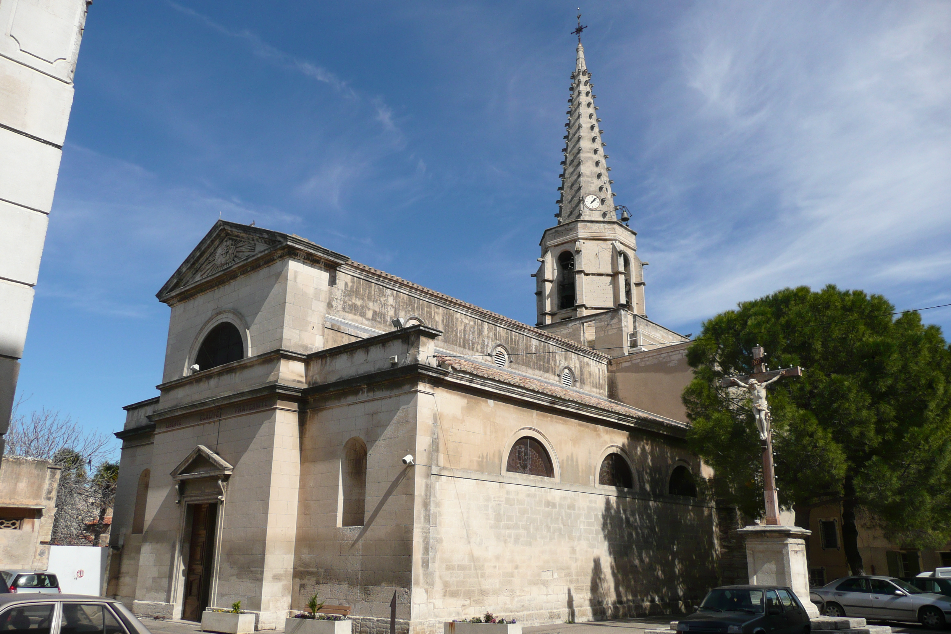 Church in Graveson